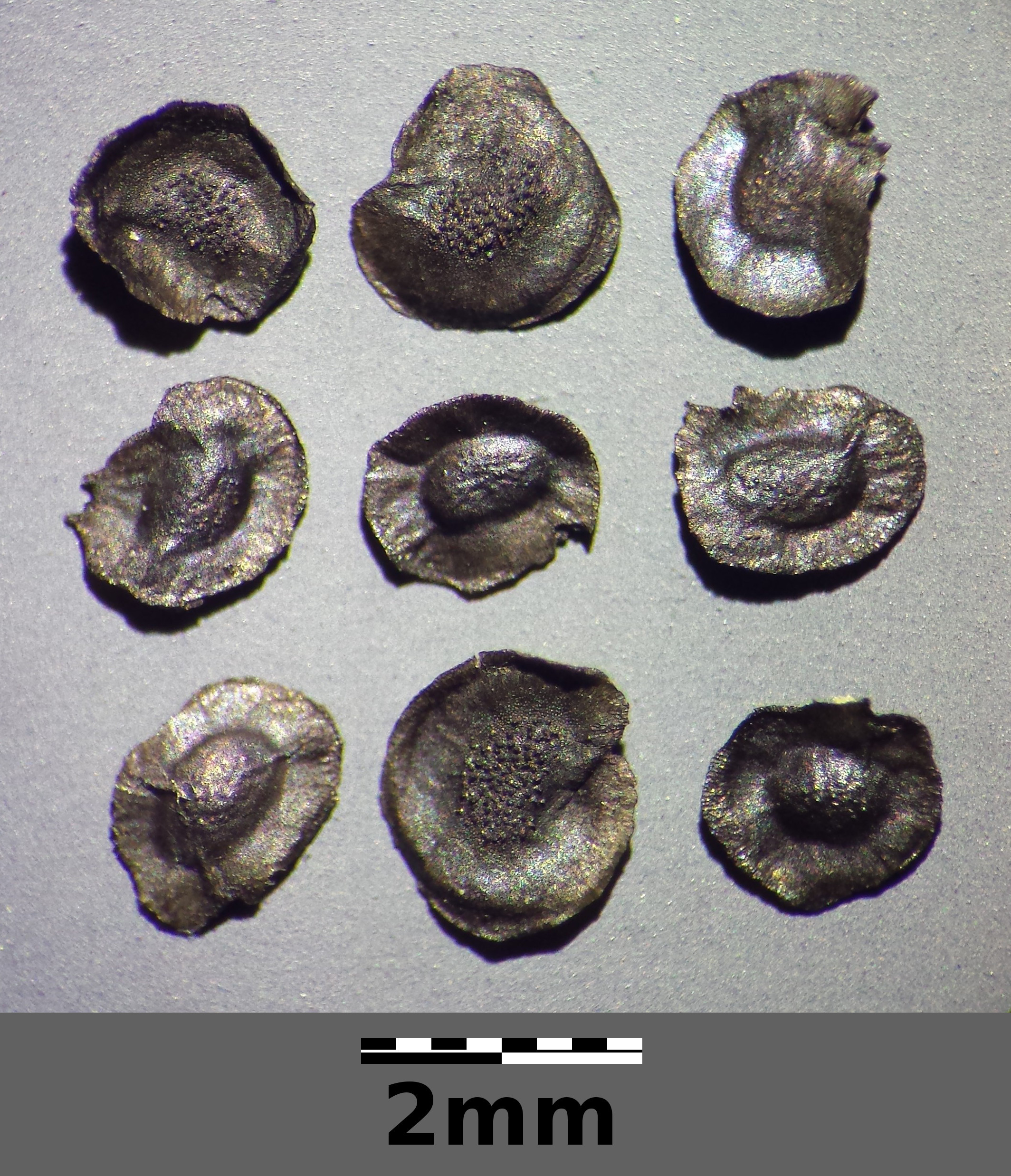 Seeds Taxon: Linaria vulgaris s. str. (sensu Fischer et al. EfÖLS 2008 ISBN 978-3-85474-187-9) Location: Floridsdorf rail station, Vienna-Floridsdorf - ca. 160 m a.s.l. Habitat: ballast